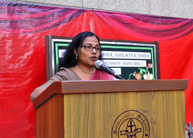 Principal of Somerville School, Greater Noida